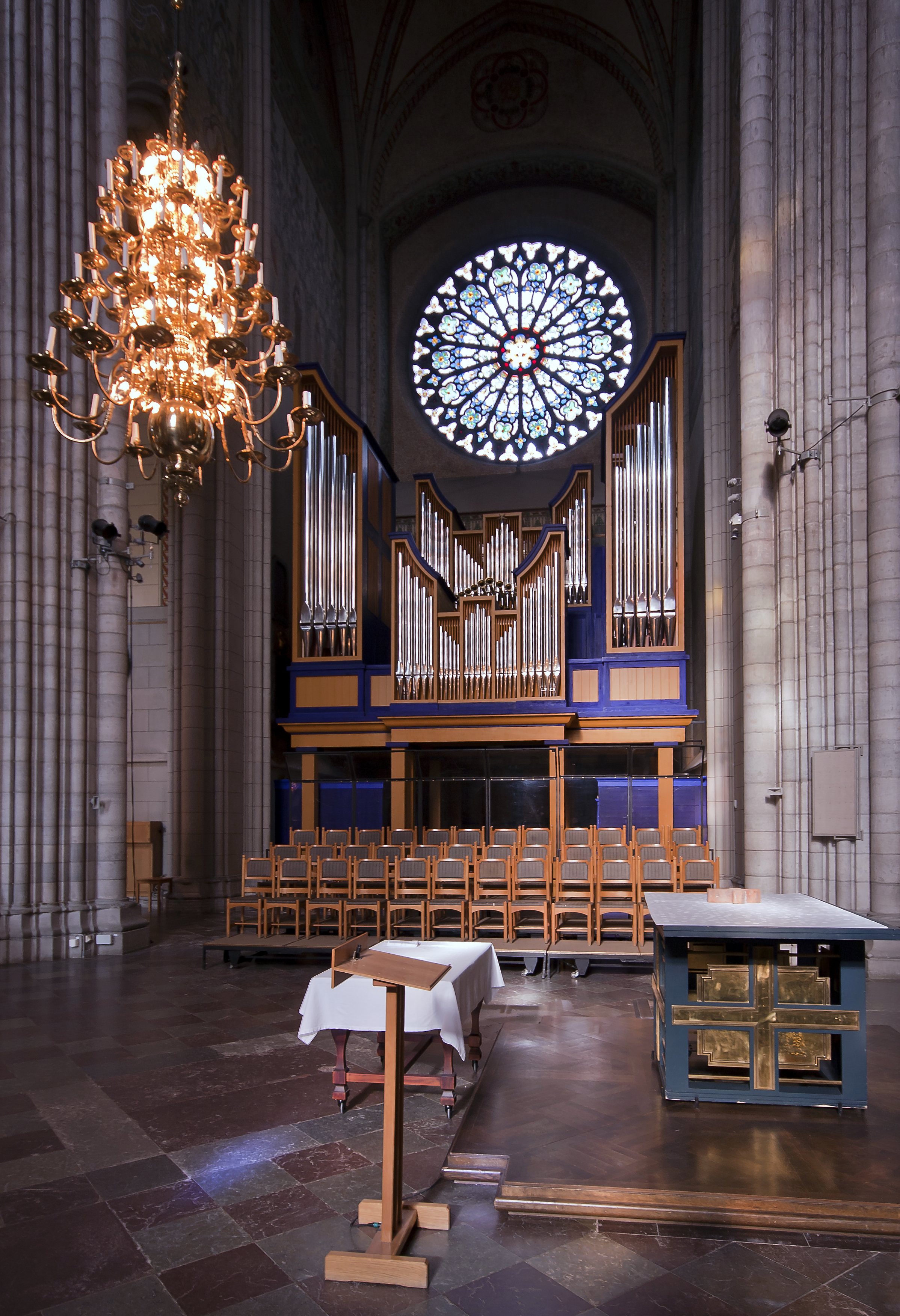 2009 Ruffatti organ in Uppsala Cathedral.